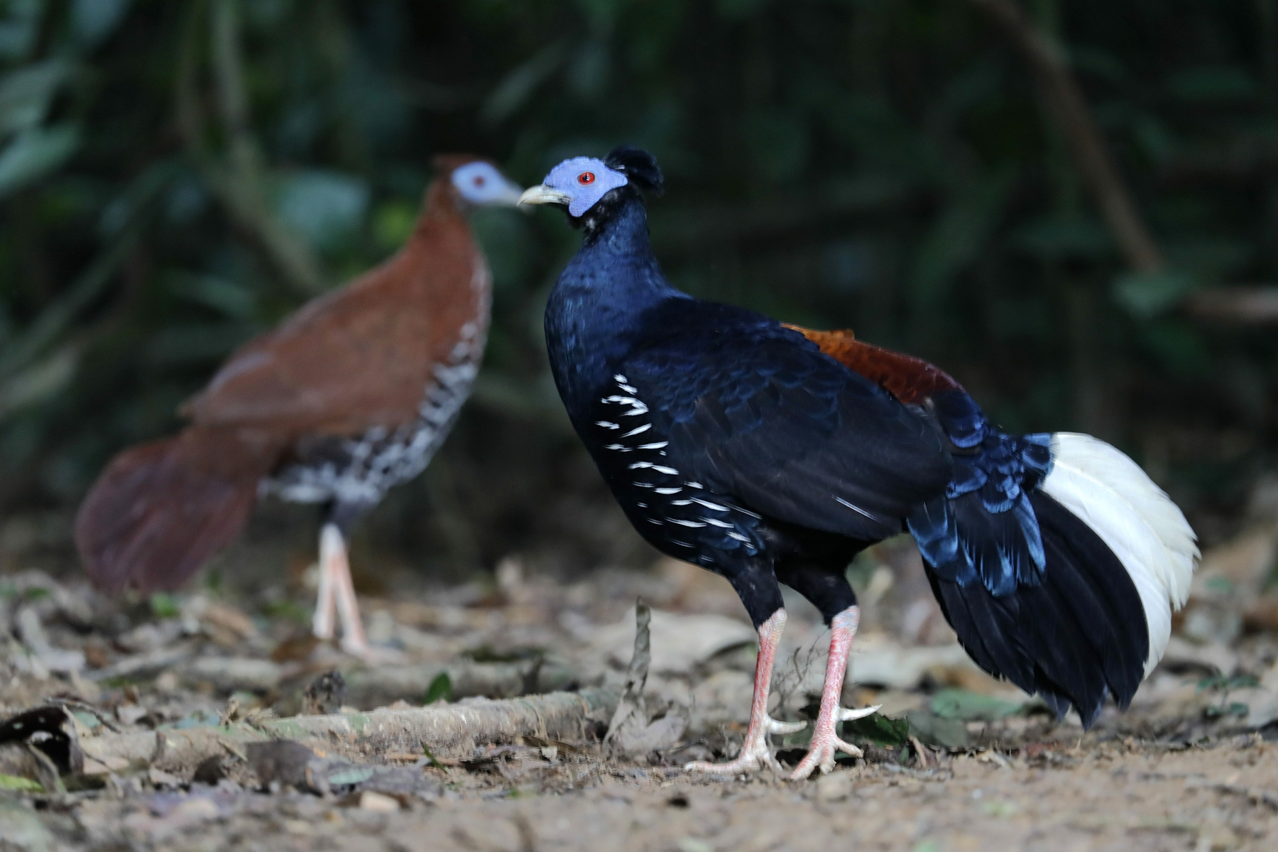 Crested Fireback (Lophura ignita rufa) or Malay Crested Fireback (Lophura rufa), Taman Negara National Park, Pahang, Malaysia